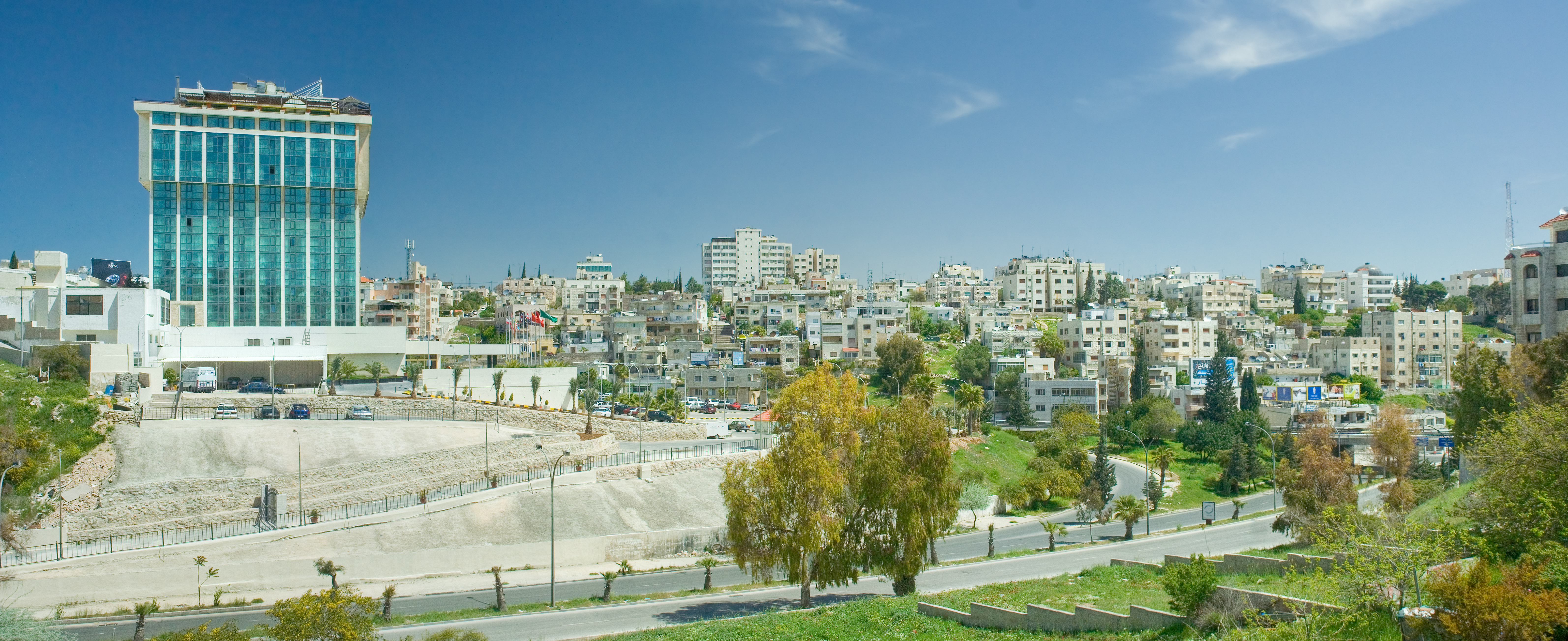 A view into Abdali across Wadi Saqra, featuring the Landmark Amman hotel, Amman.